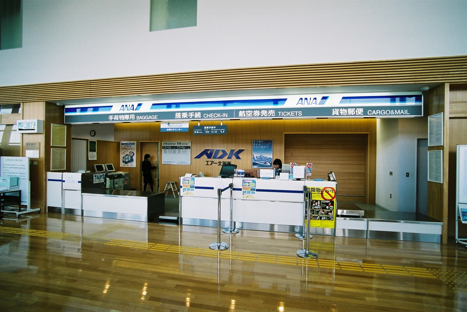 Check-in counters in Okushiri Airport